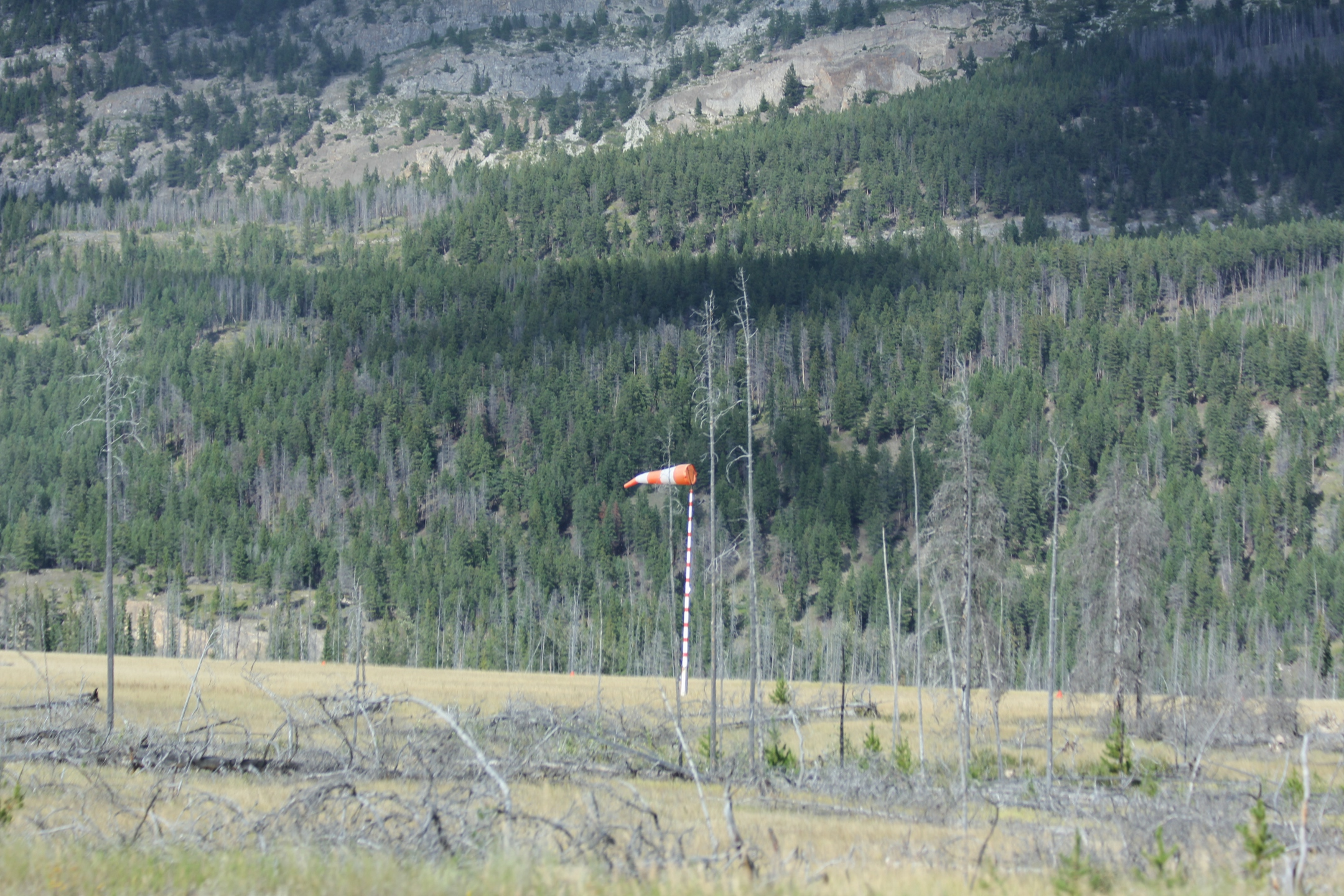 The windsock for the Jasper Airport north of Jasper, Alberta from the Yellowhead Highway.